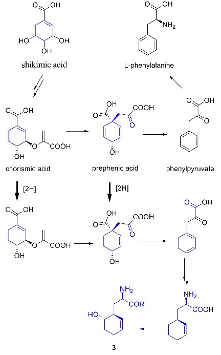 I, Mike Macrae, created this file in ChemDraw